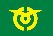 Flag of Kumenan Okyama